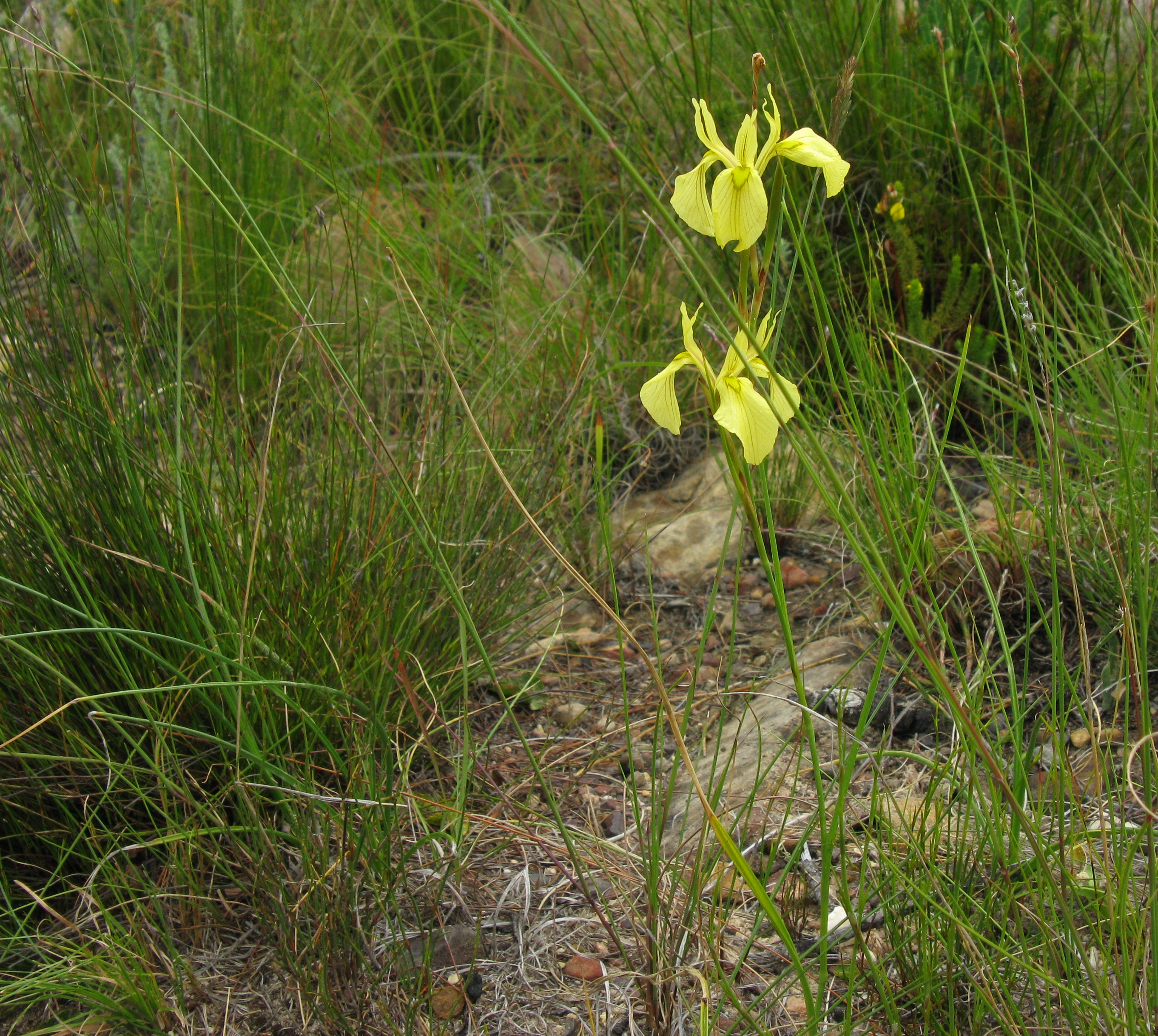 Moraea neglecta, about 1 foot high, with rather showy yellow flowers of fair size.